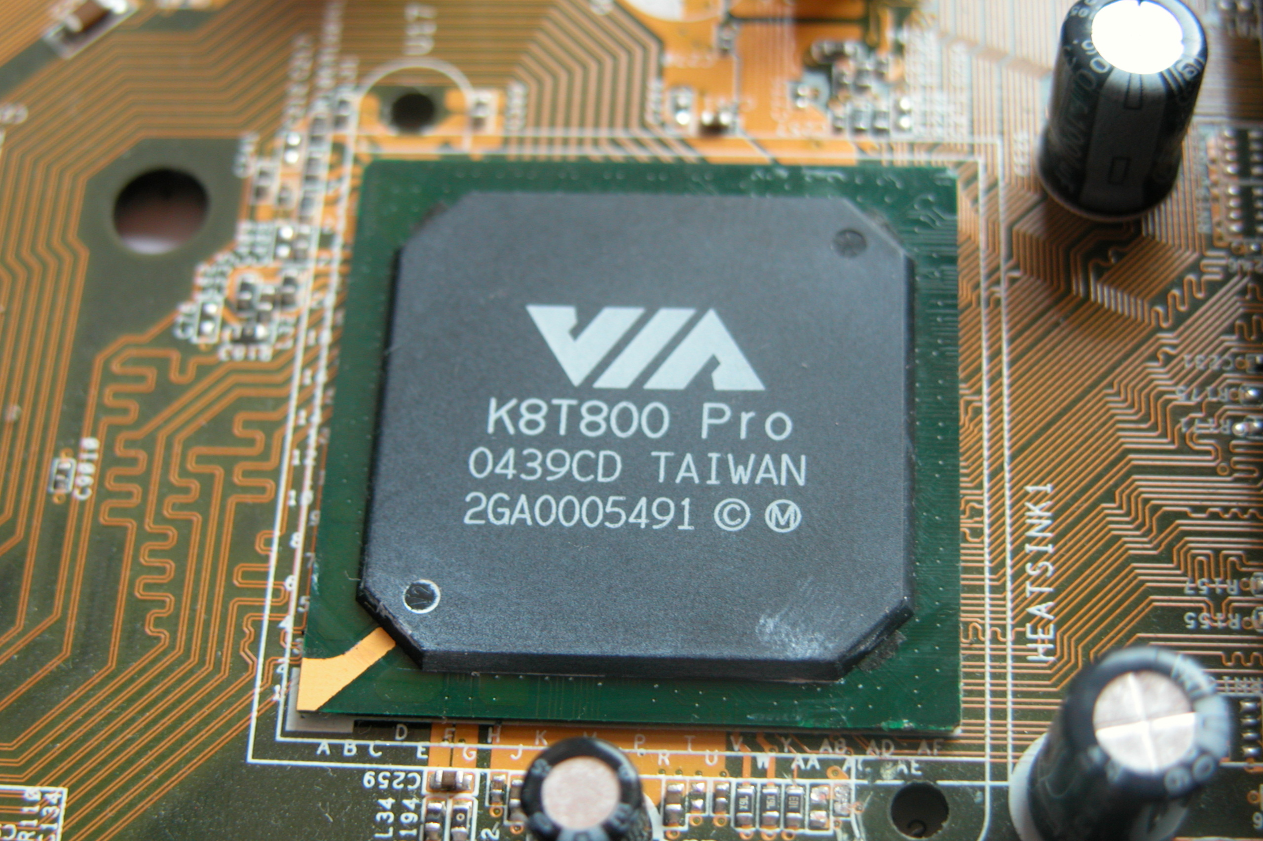 A VIA K8T800Pro Northbridge for an AMD Socket 939 Mainboard